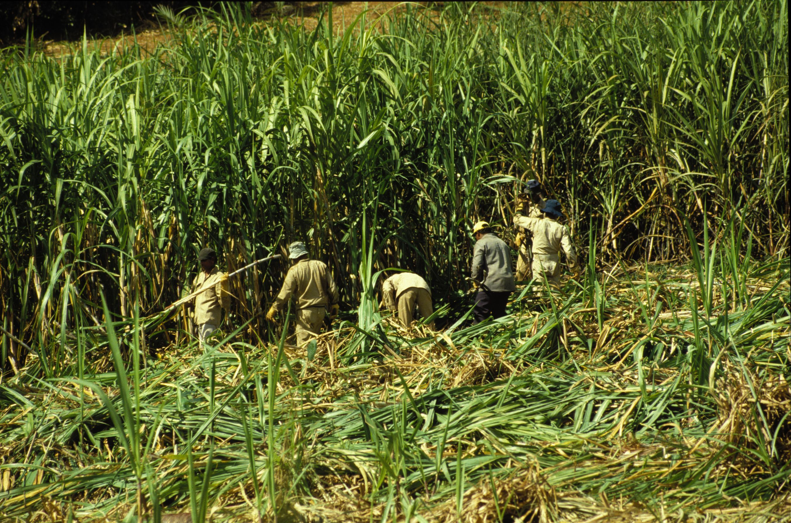 Harvesting of sugarcane on Mauritius